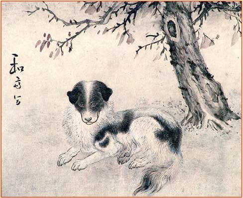 The picture of a dog is painted by Byeon Sangbyeok.